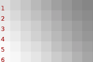 Interlaced (Full Frame) Example - for Progressive Scan article